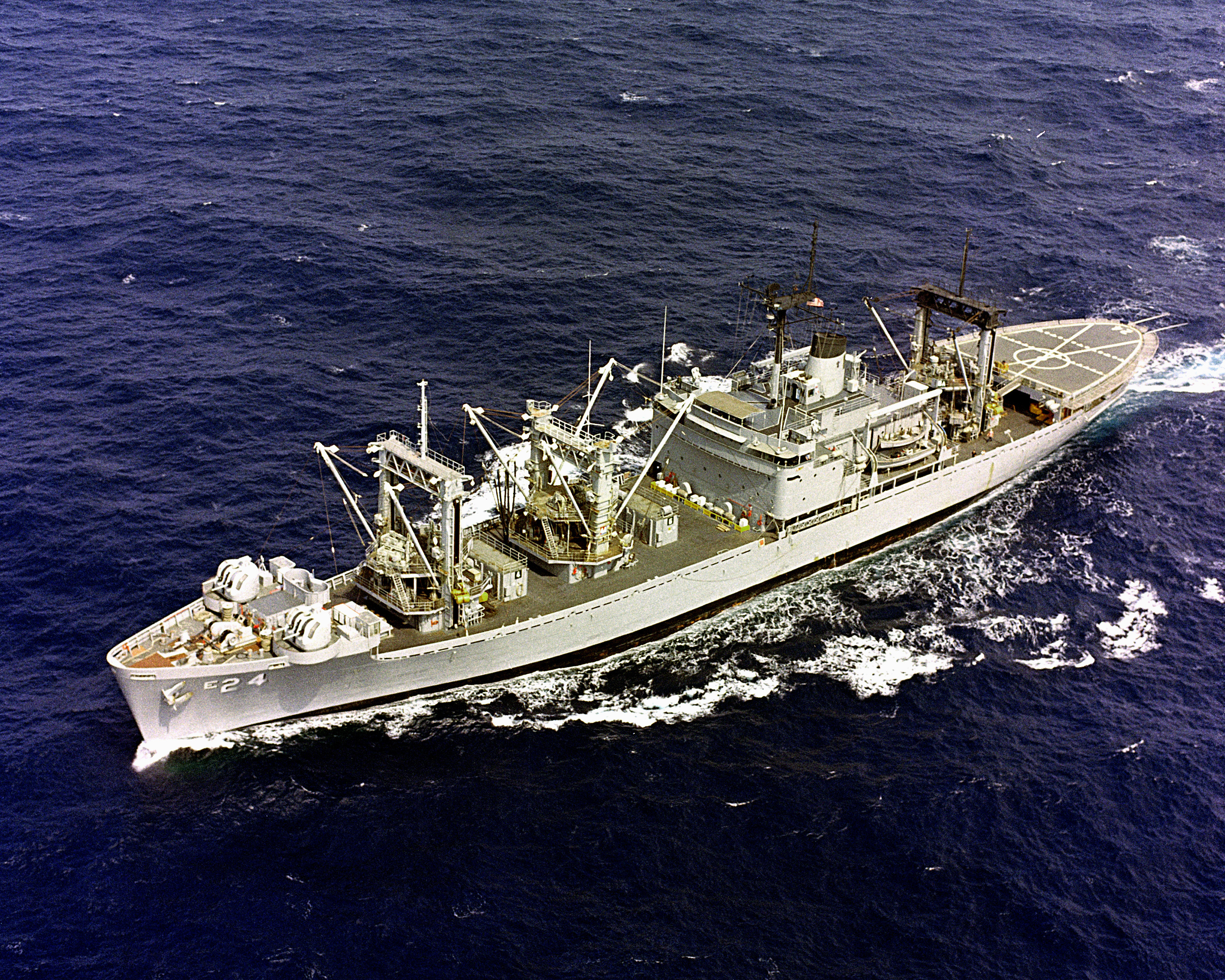 The U.S. Navy ammunition ship USS Pyro (AE-24) underway.